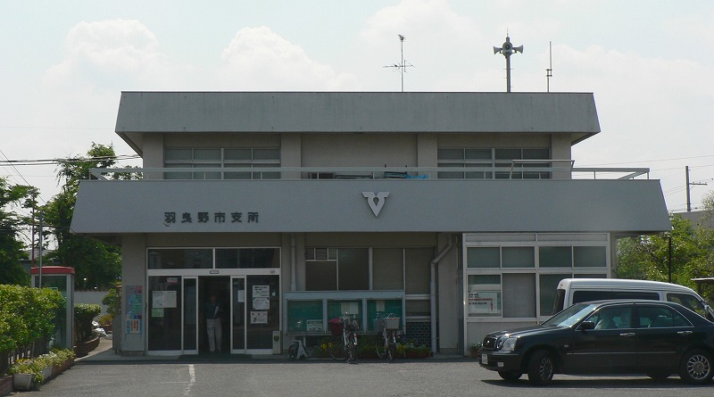 Habikino city branch office, Osaka, Japan （羽曳野市役所支所）